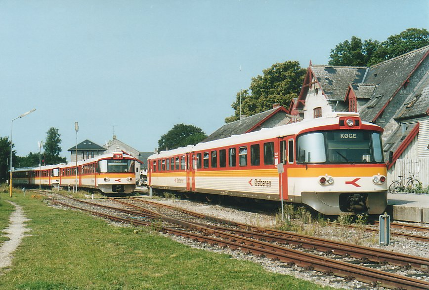 Østbanen Lynette DMUs at the station of Rødvig